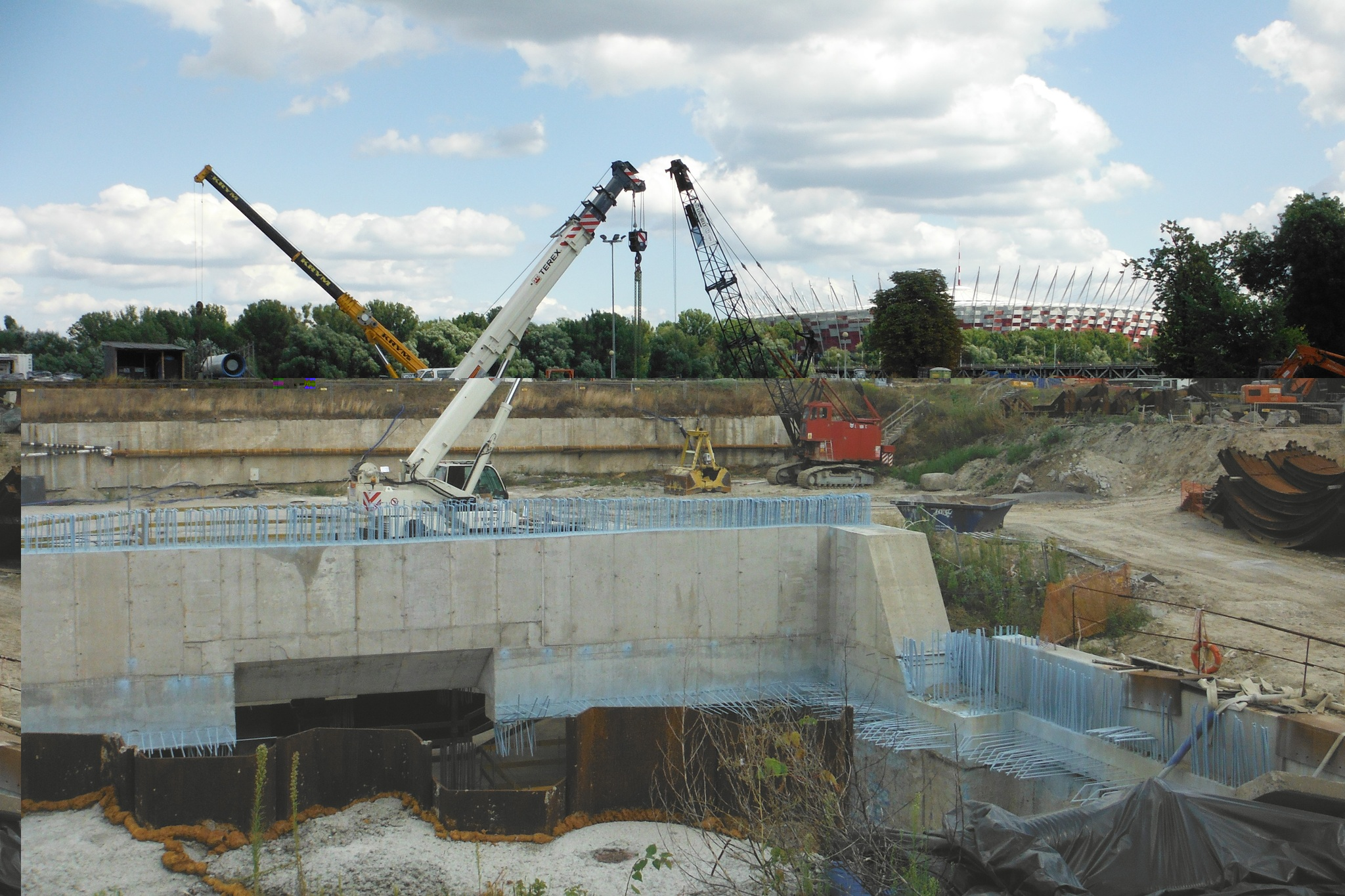 Centrum Nauki Kopernik metro station (under construction) in Warsaw (15th of August 2013).